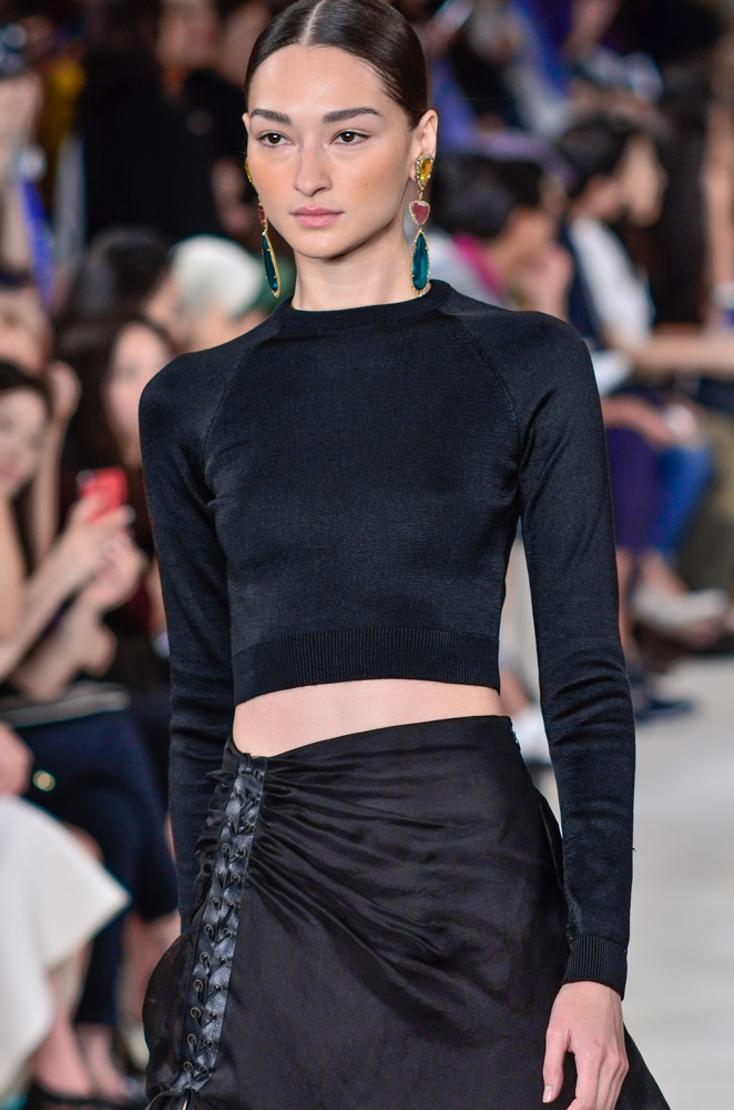 Bruna Tenorio walking the Ralph Lauren Spring/Summer 2015.